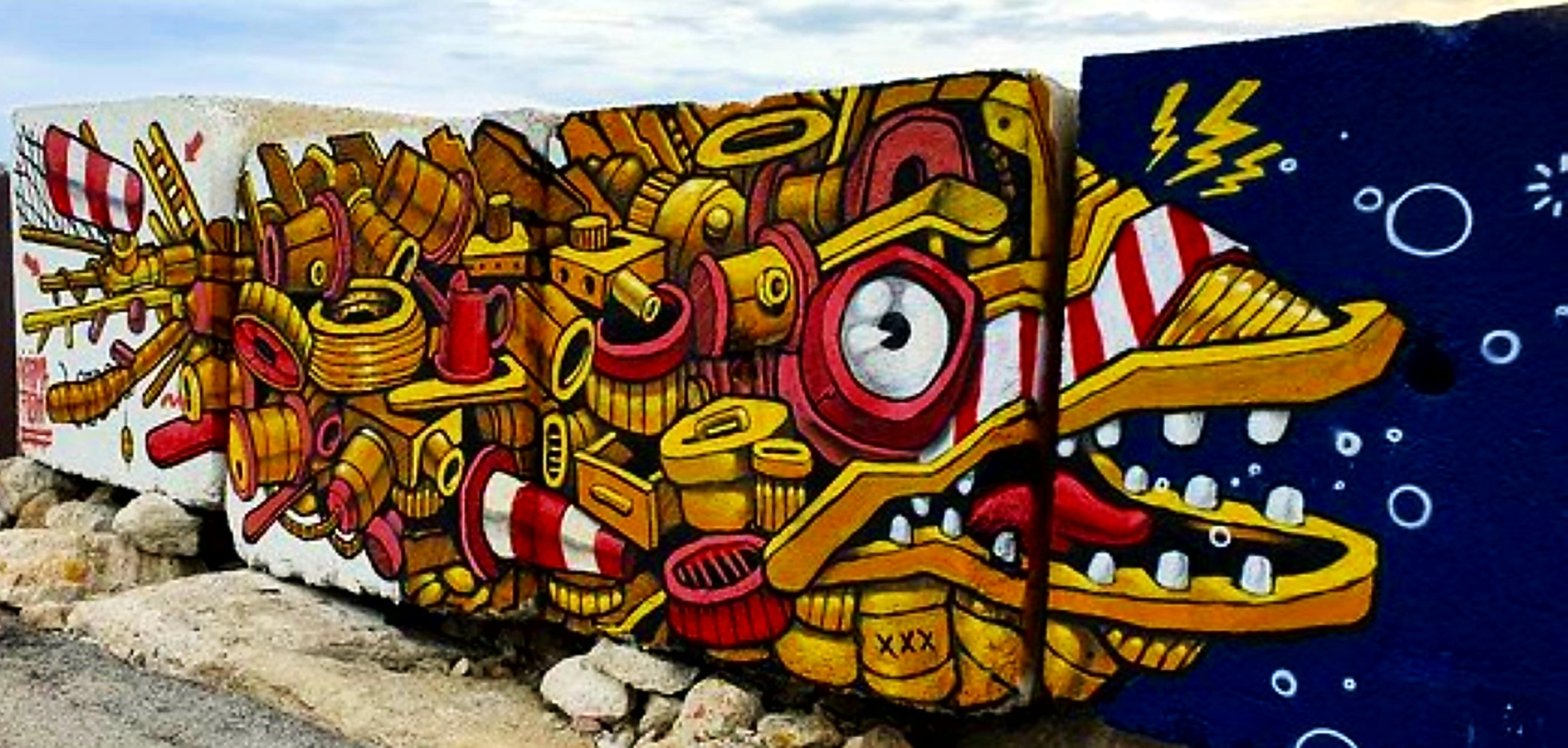 San Benedetto del Tronto, Museum of Art on the Sea (MAM) at the south pier